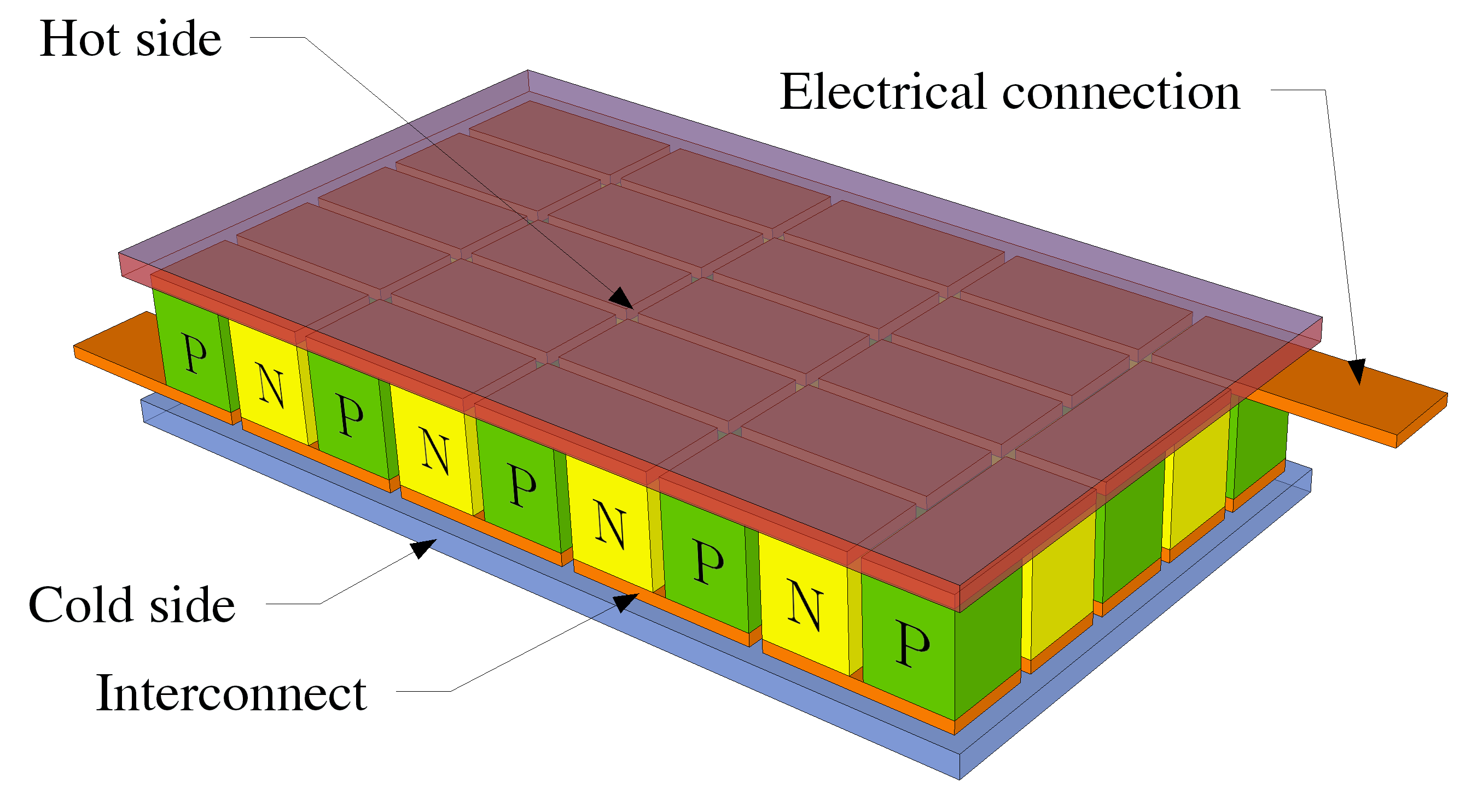 Schematic of a Peltier device. On top and bottom insulating heat spreaders are used and assumed to be connected to heat and cold reservoirs, respectively. They are shown semi-transparent. P- and n-type thermoelectric materials are stacked electrically in series and thermally in parallel. Depending on whether a current source or a resistive device is connected to the electrical connections, this can work as a Peltier element or a thermoelectric generator.